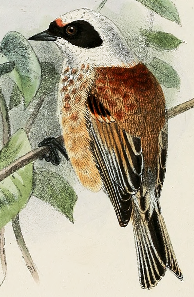 Remiz pendulinus Dresser